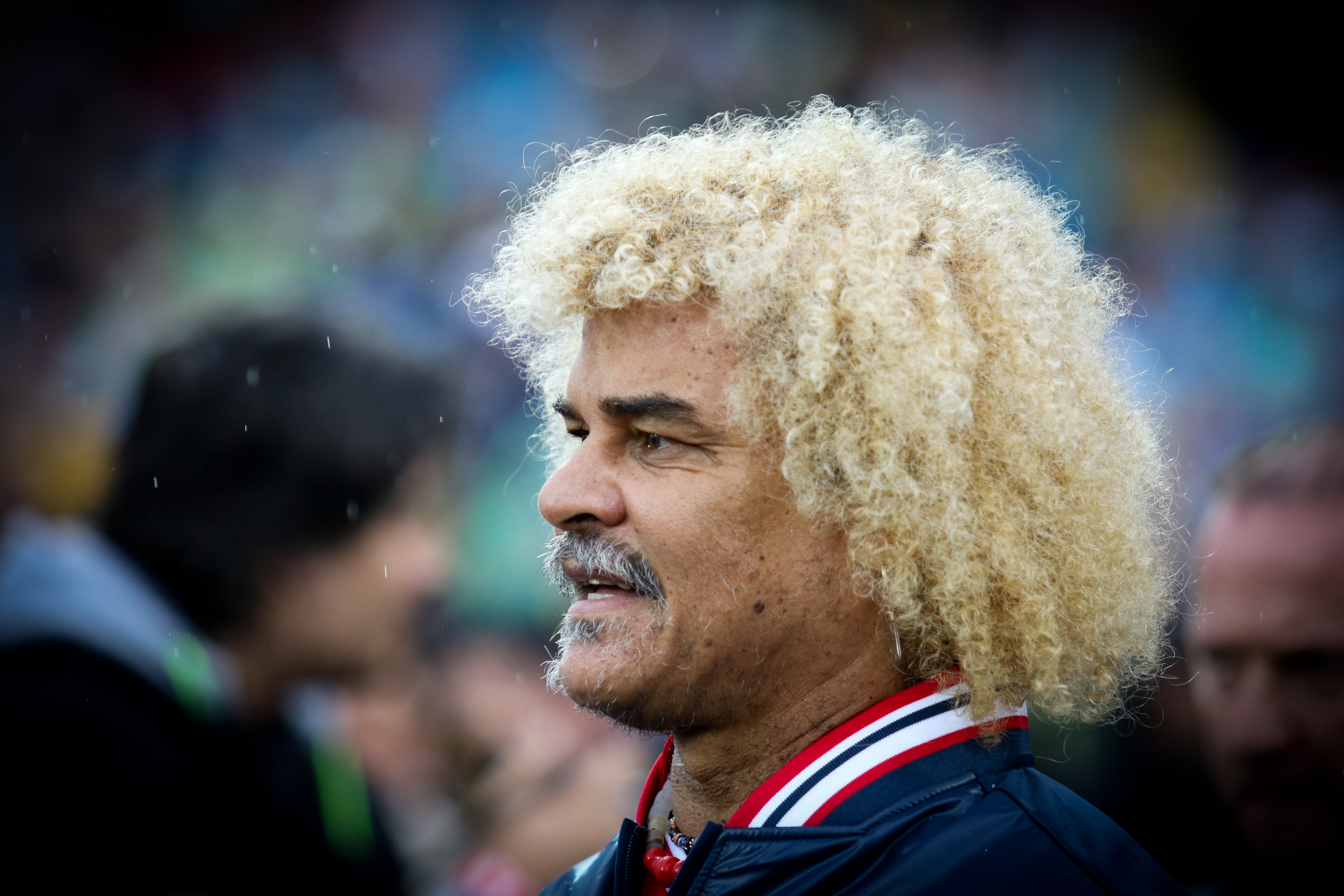 Former Soccer star Carlos Valderrama from Columbia - known for his precise passing, technical skills, and elegance on the ball, he is regarded as one of the best Colombian and South American footballers of all time, and by some as Colombia's greatest player ever., during the show of Hristo Stoichkov - "50 years №8", Sofia, Bulgaria. 20th May 2016.